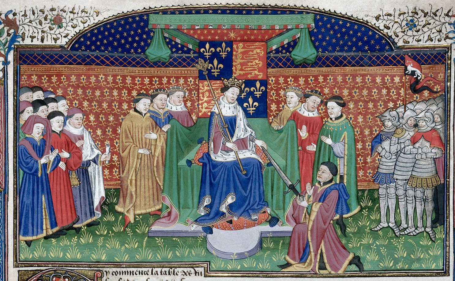 Henry VI enthroned; detail of a miniature from BL Royal MS 15 E vi, f. 405r (the "Talbot Shrewsbury Book"). Held and digitised by the British Library. The leading figure at far left holding a staff with a purse (containing the Great Seal) attached to his waist appears to be the Lord Chancellor, those items being the symbols of his office. Possibly John Stafford (died 25 May 1452) Lord Chancellor (1432-1450) and Archbishop of Canterbury (1443-1452).